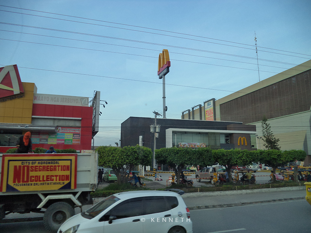 McDonald's Koronadal